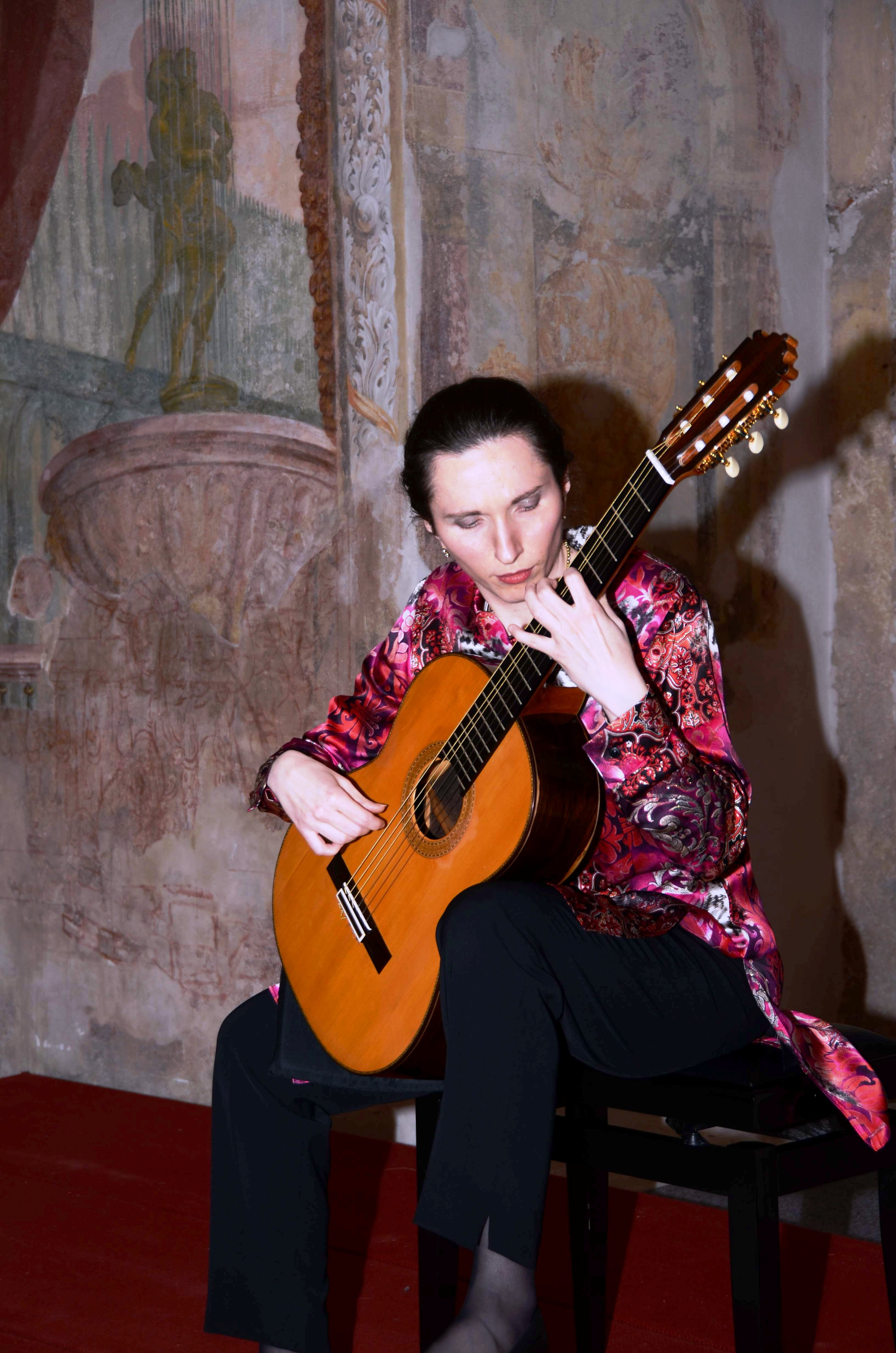 The Austrian classical guitarist Johanna Beisteiner during a concert at Vösendorf Castle (Austria) in November 2012. In the background one can see a part of the 17th century frescoes.